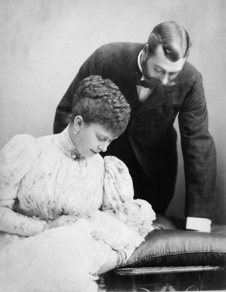 Prince George, Duke of York (later Prince of Wales, and then King George V) and the Duchess of York, (later Queen Mary) with their eldest son, Edward (later King Edward VIII)